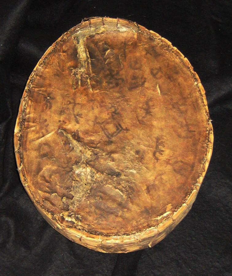 Sami drum from Vefsn/Bindal, Norway; Bindalstromma. Now in Norsk Folkemuseum, Oslo.